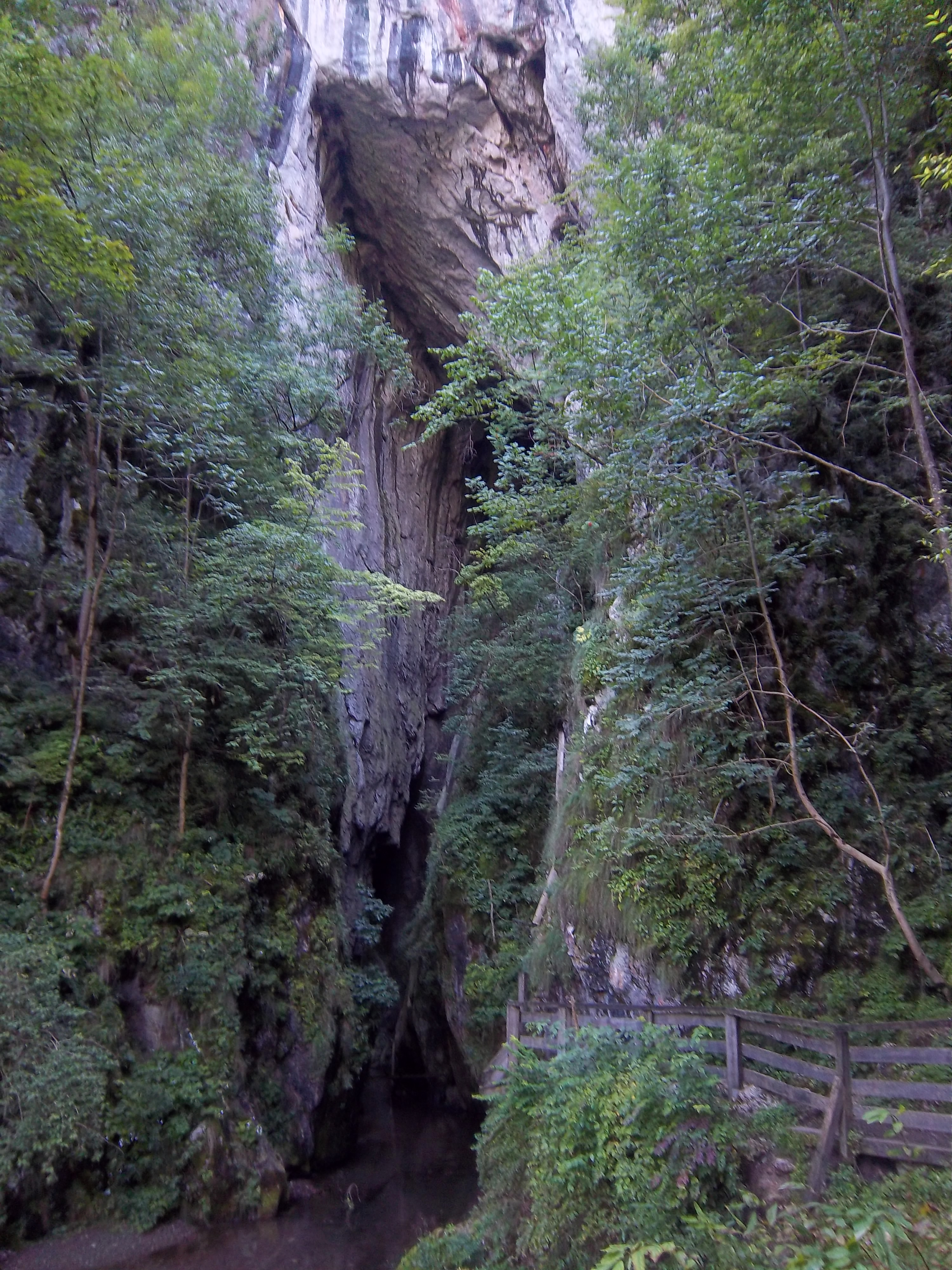 Huda lui Papară Cave